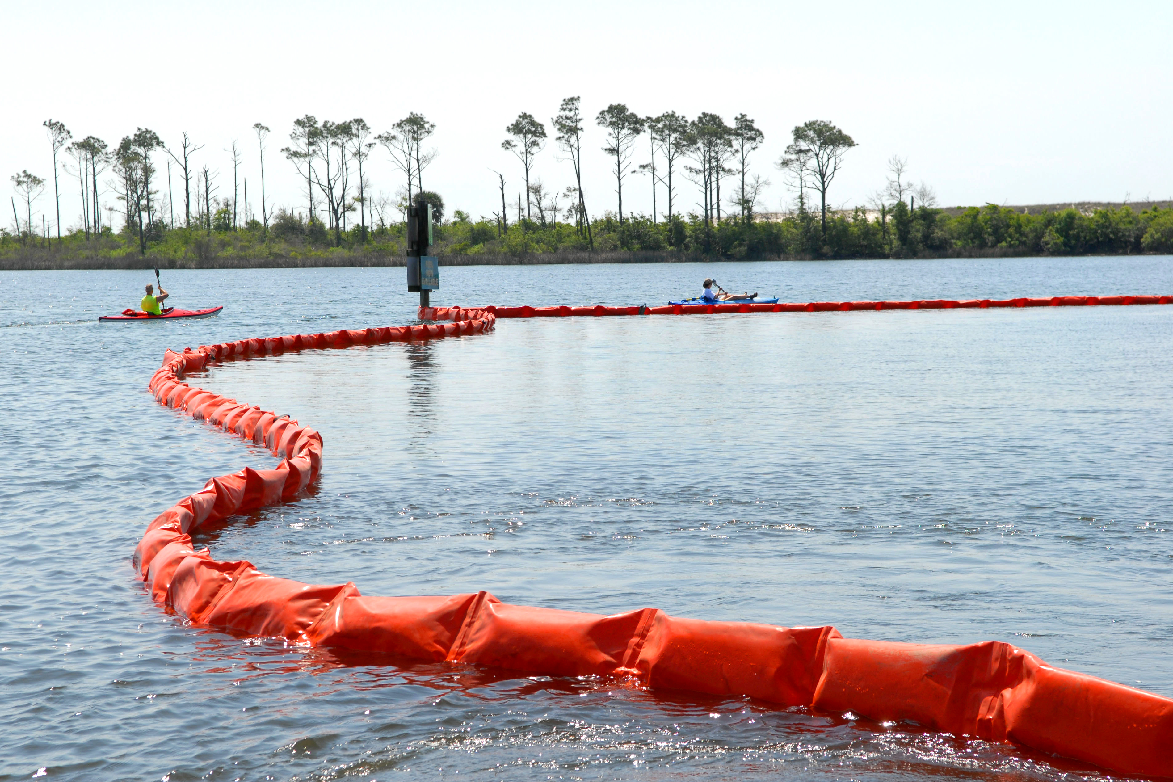 Kayakers at Naval Air Station Pensacola detour around oil containment boom on base at Sherman Cove , Pensacola, Fla., May 4, 2010. The boom was set to protect environmentally sensitive grass beds from the Deepwater Horizon oil spill. Deepwater Horizon was an ultra-deepwater oil rig that sank April 22, causing a massive oil spill threatening the U.S. Gulf Coast.